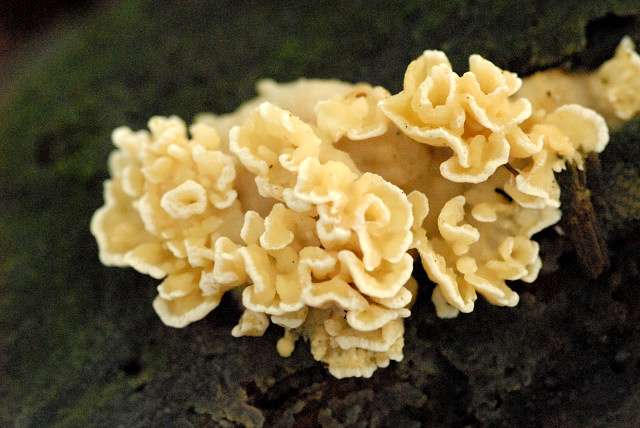 Antrodiella semisupina from Commanster, Belgium. If you think this is a different taxon, please contact James Lindsey.